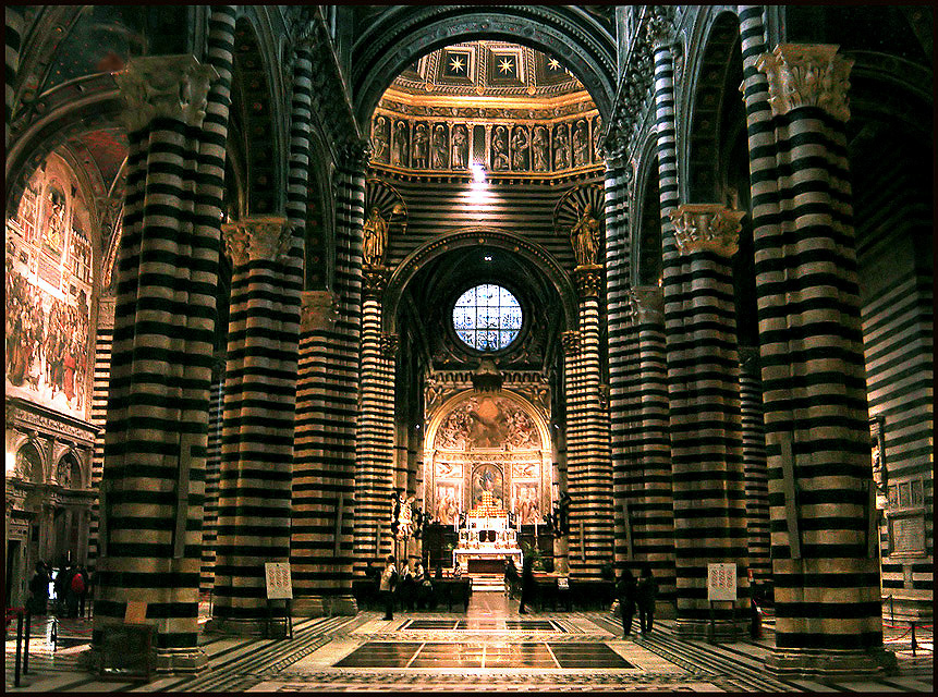 Interior of Siena Cathedral, Italy.